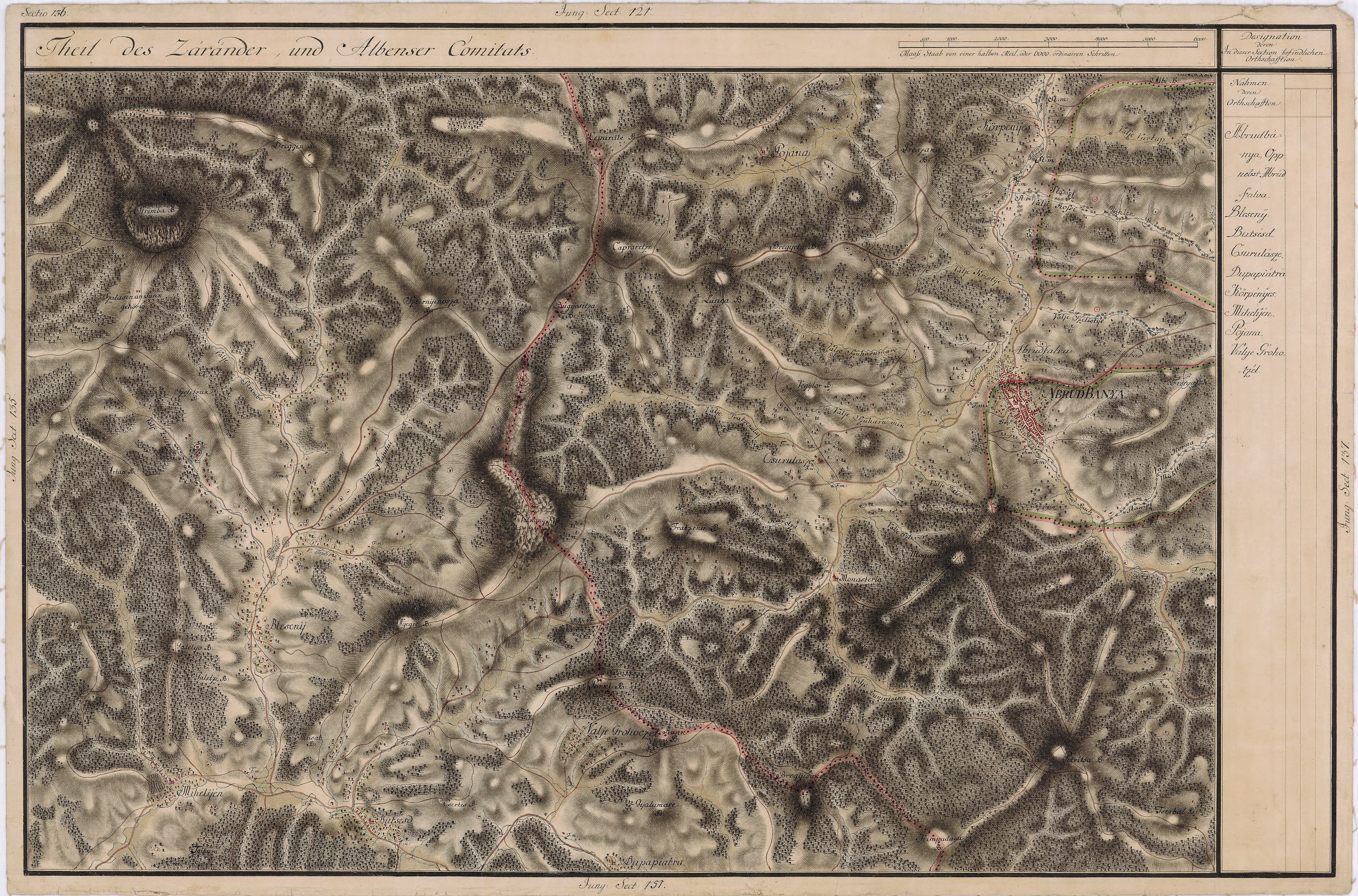 Grand Duchy of Transylvania, 1769-1773. Josephinische Landaufnahme pg.136